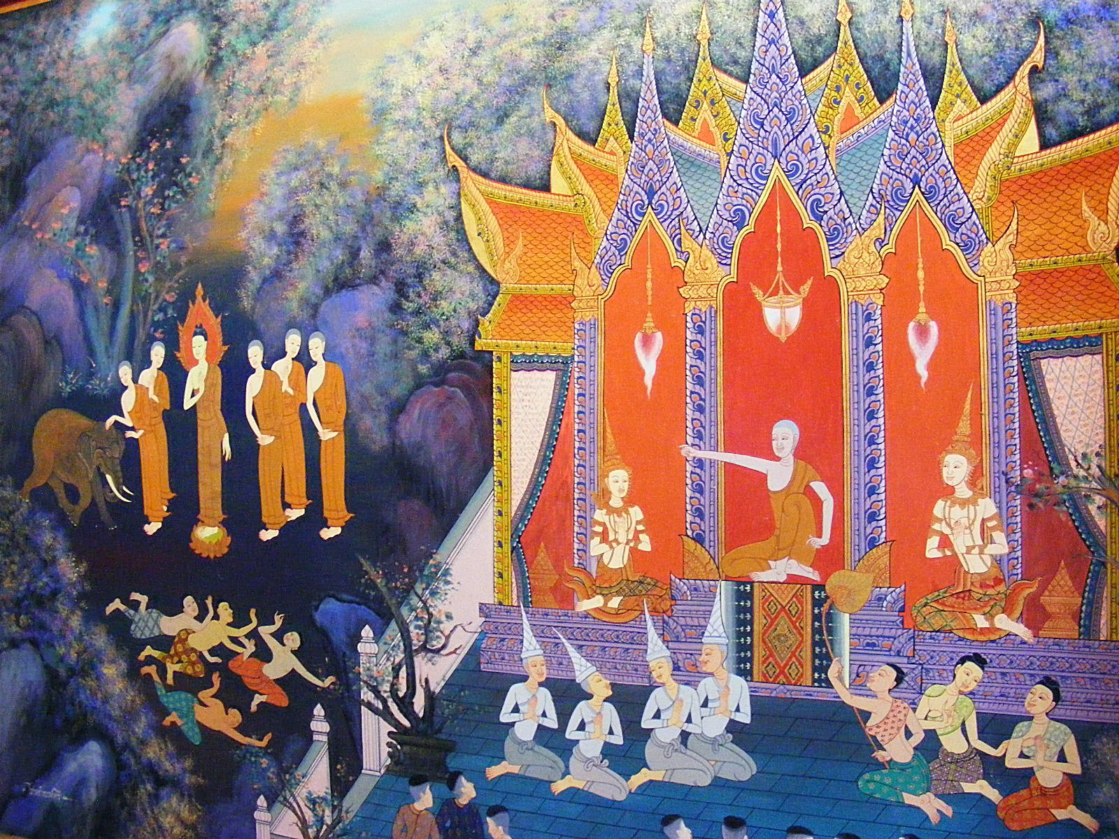 Devadatta -Inciting an elephant to charge at the Buddha Location: Wat Phra Yuen Phutthabat Yukhon Amphoe Laplae, Uttaradit Province, Thailand.